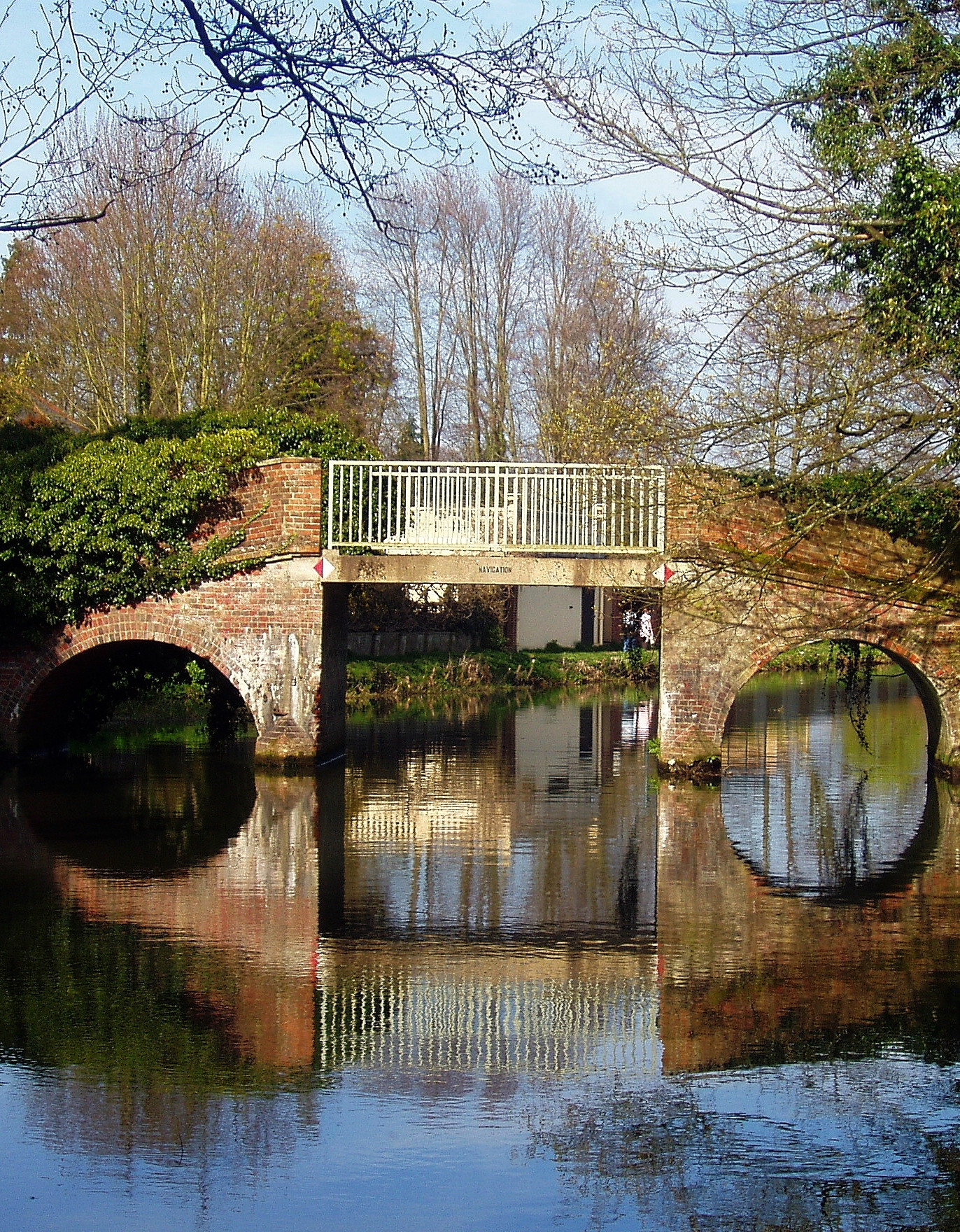 Trowers' Bridge, as pictured in 2007.